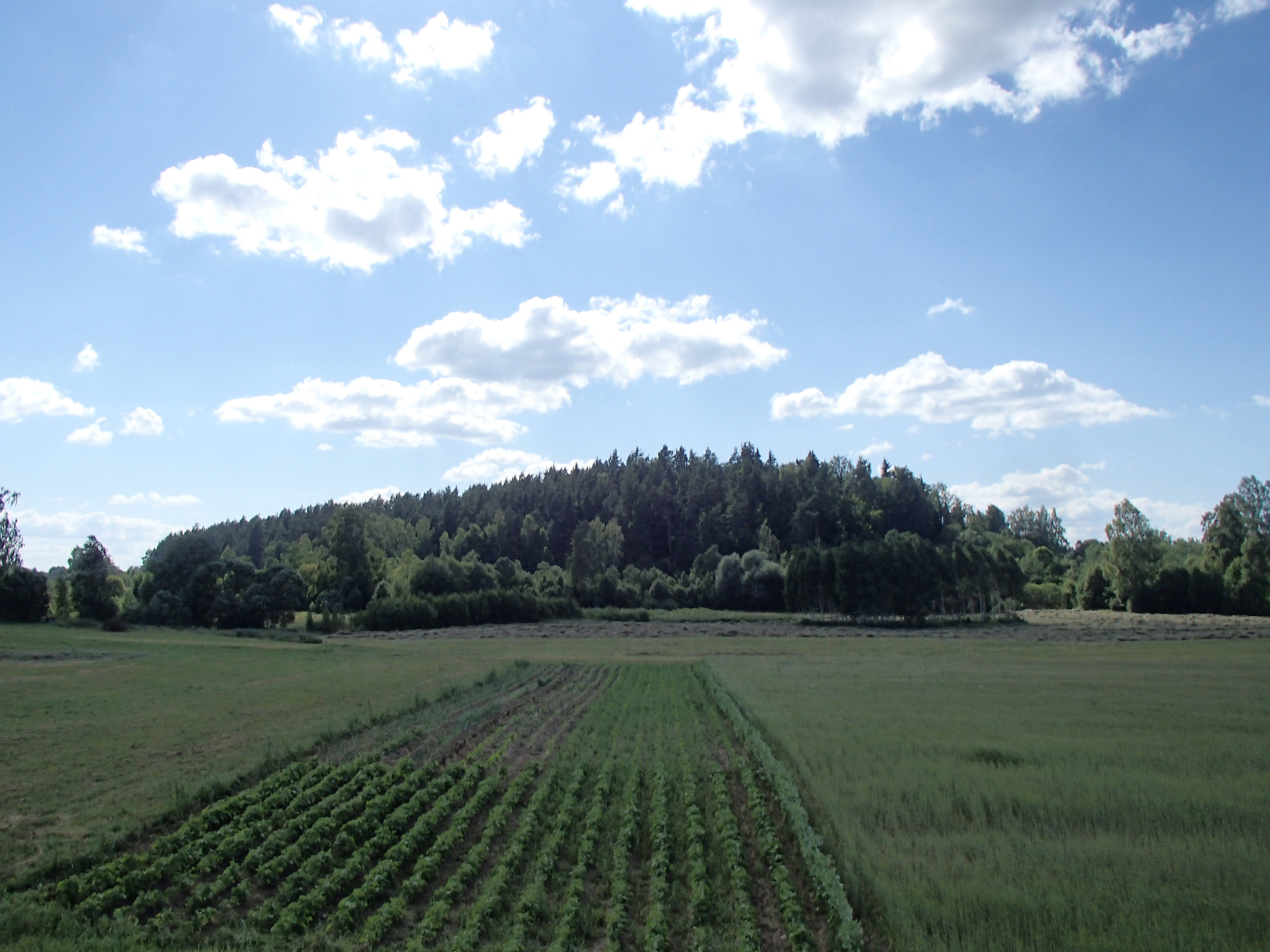 Possible hillfort site. Near Vija river.